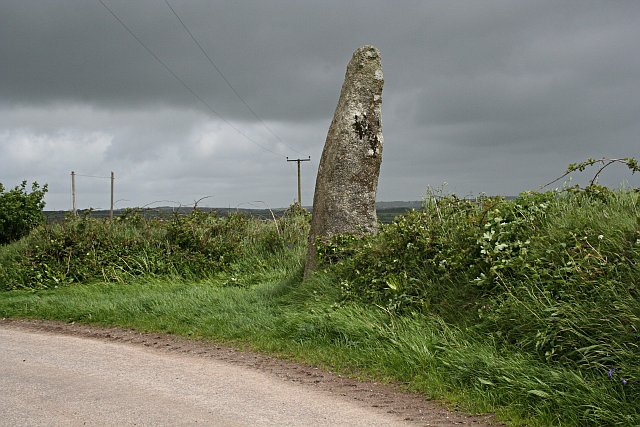 The Prospidnick Long Stone. This is a 3 metre high standing stone on Longstone Down, 660 metres northeast of Prospidnick Hill. It is probably ancient.